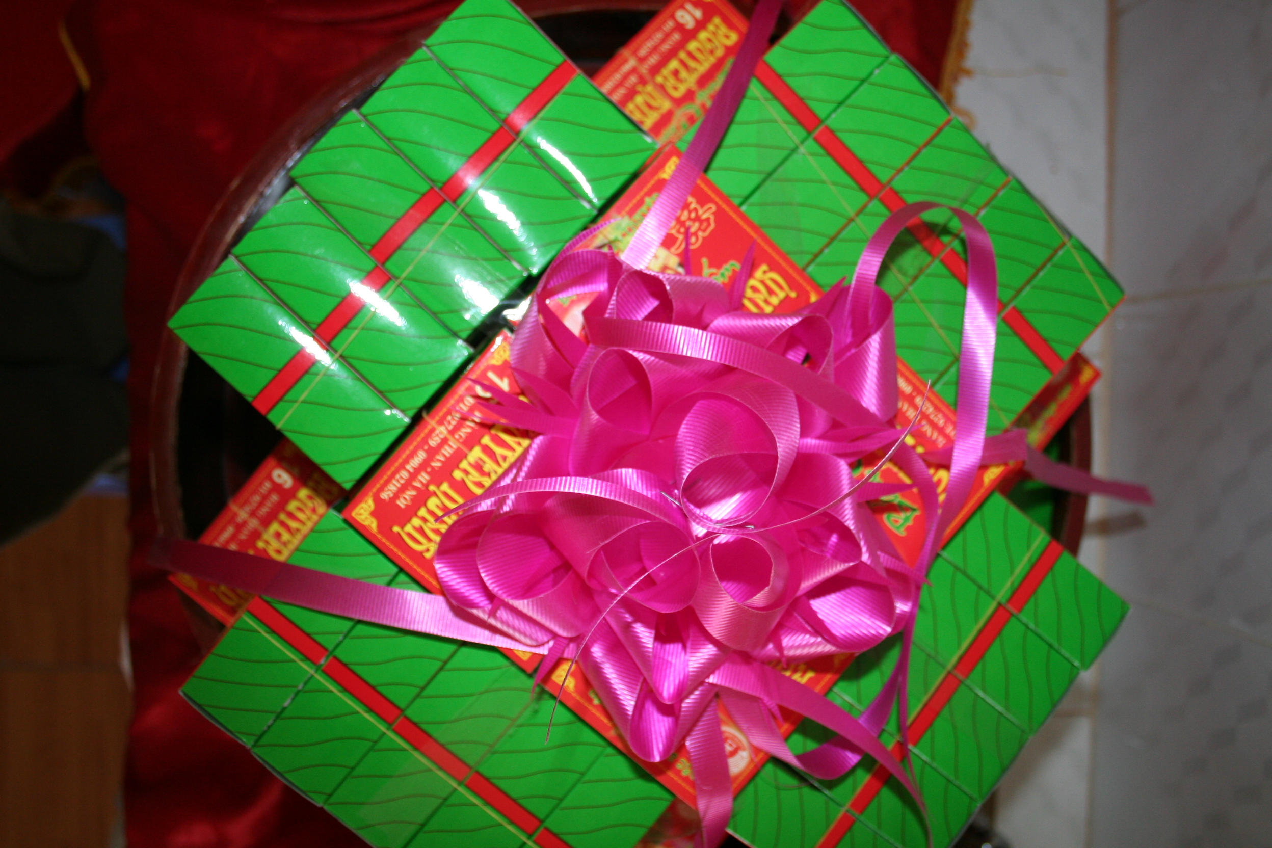 green rice cake made using cốm with mung bean filling